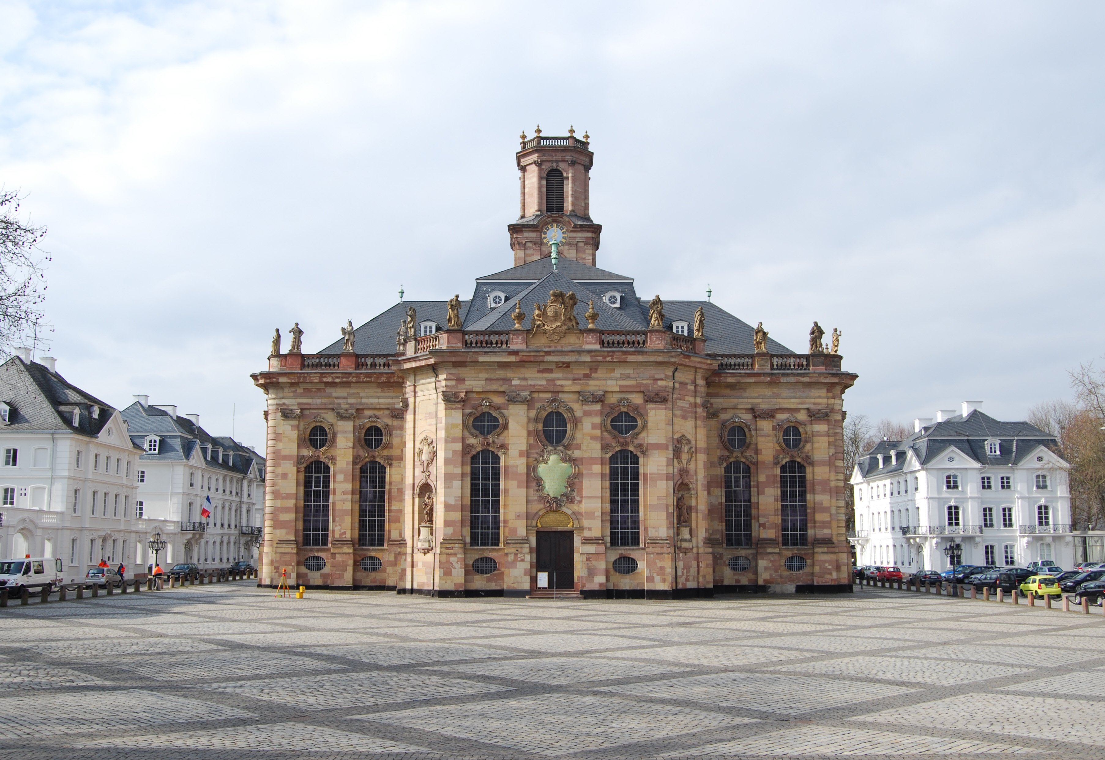 Ludwigskirche, church in Saarbrücken, Saarland.